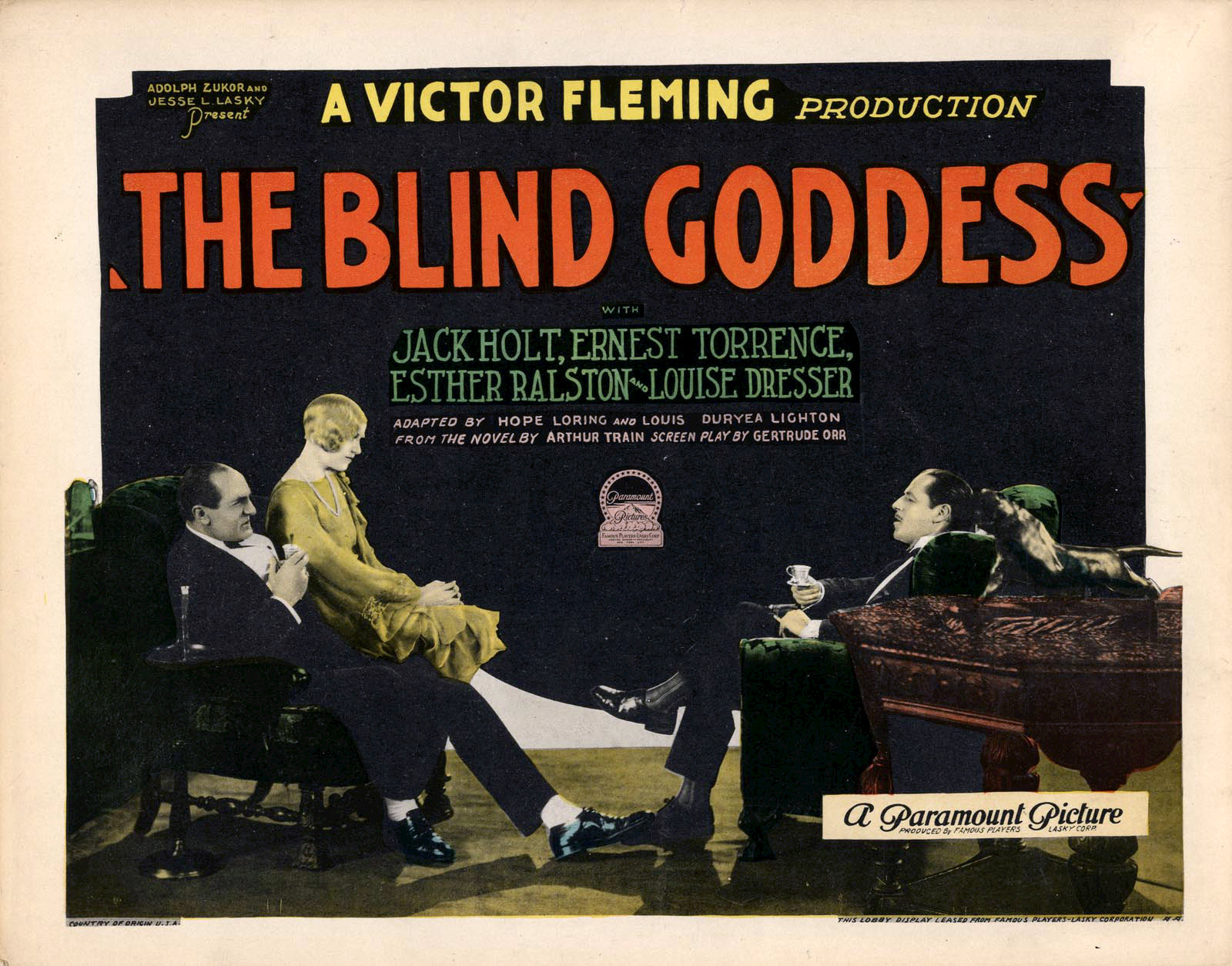 Lobby card for the American mystery film The Blind Goddess (1926). The item has no copyright markings on it as can be seen in the links above. At bottom left is Country of origin USA. At bottom right is This lobby display leased from Famous Players Lasky Corporation.